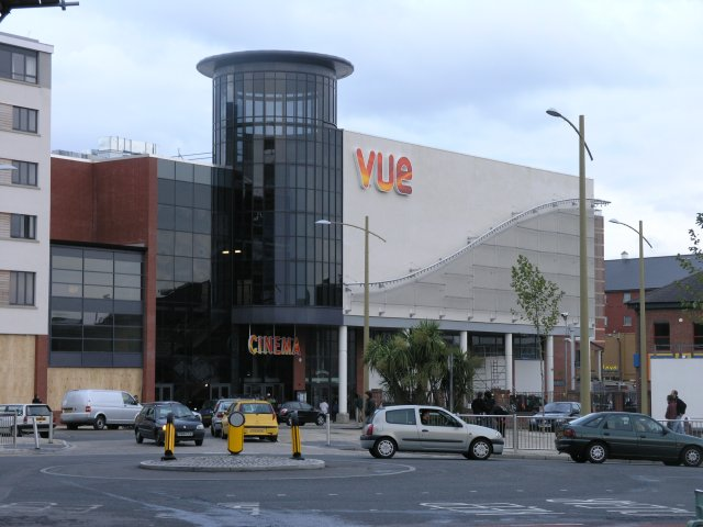 New Vue Cinema, Swansea The new Vue cinema at Swansea on the first weekend of opening.